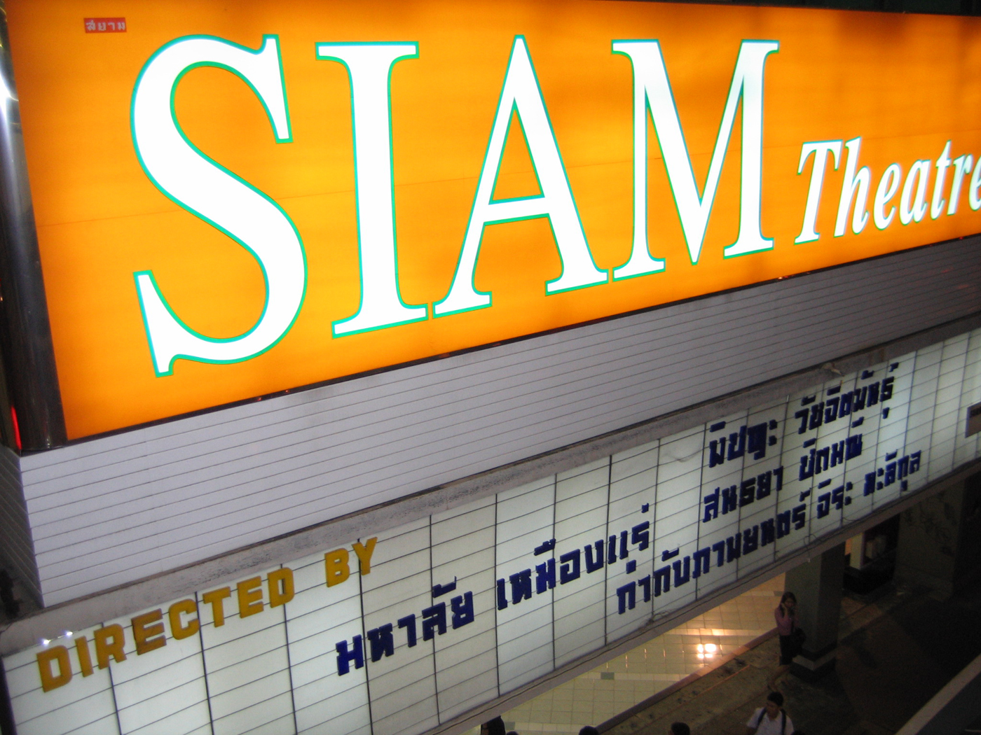 The Siam Theater in Siam Square, Bangkok. It's showing a Thai film, The Tin Mine by Jira Maligool.